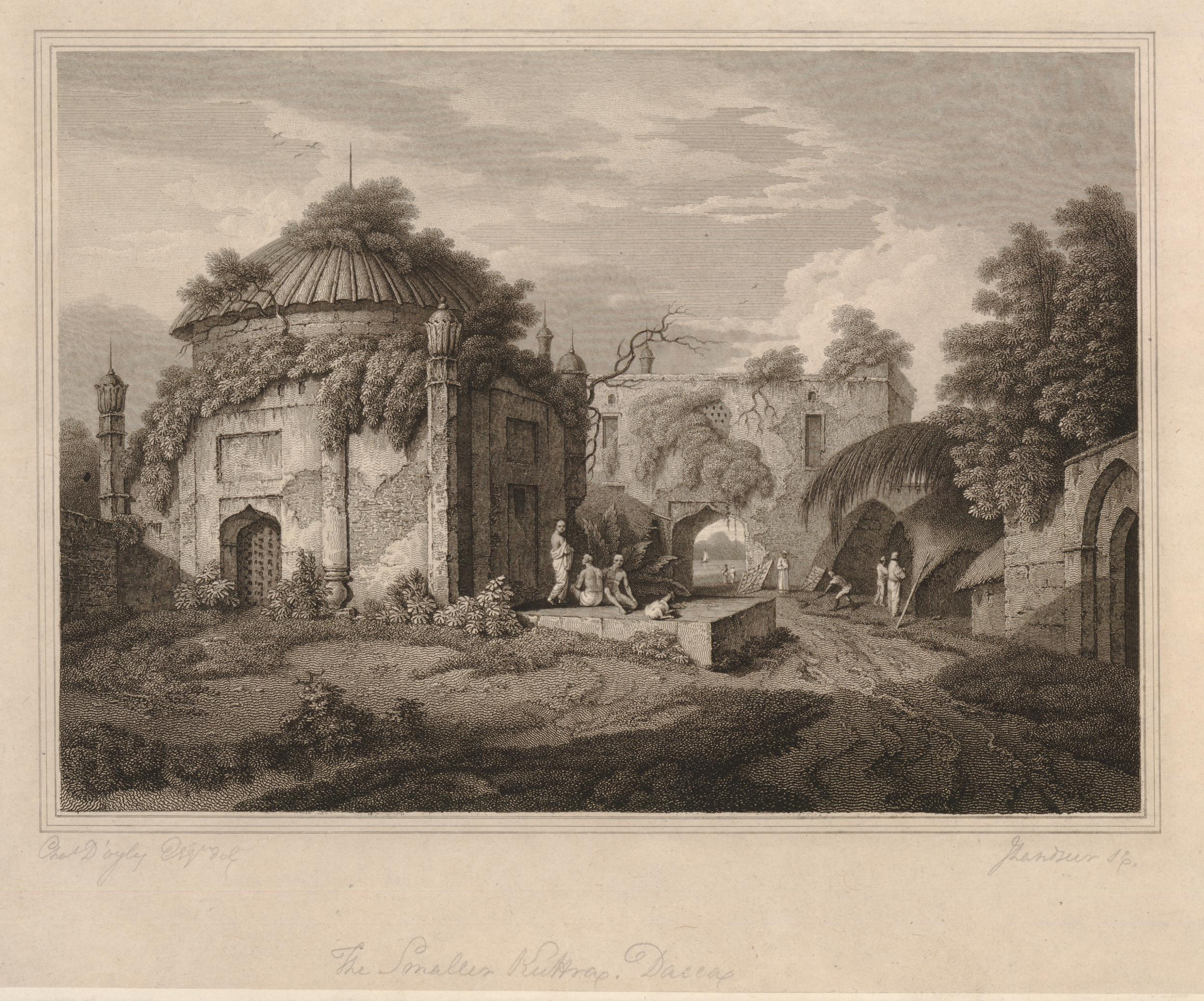 This etching is derived from plate 9 of Charles D'Oyly's 'Antiquities of Dacca'.A quarter of a mile to the east of the Bara Katra in Dhaka is the Chota Katra: essentiallty a smaller version, similar in layout, which was built in 1663 by the Mughal governor of Bengal and uncle of Aurangzeb, Shaista Khan.Historian James Atkinson wrote that D'Oyly's view of the caravanserai "is taken from within the area of the square which its walls enclose ... a small Mosque ... on the left ... Its minarets rise somewhat like the shafts of elegant octangular columns, and are terminated by capitals of oriental foliage and fruit ... and while the dome of this mosque is beautifully fluted, its uniformities of colour and form are varigated in a picturesque manner by the blue and orange mosses, and other luxurious vegetation of this part of Asia".